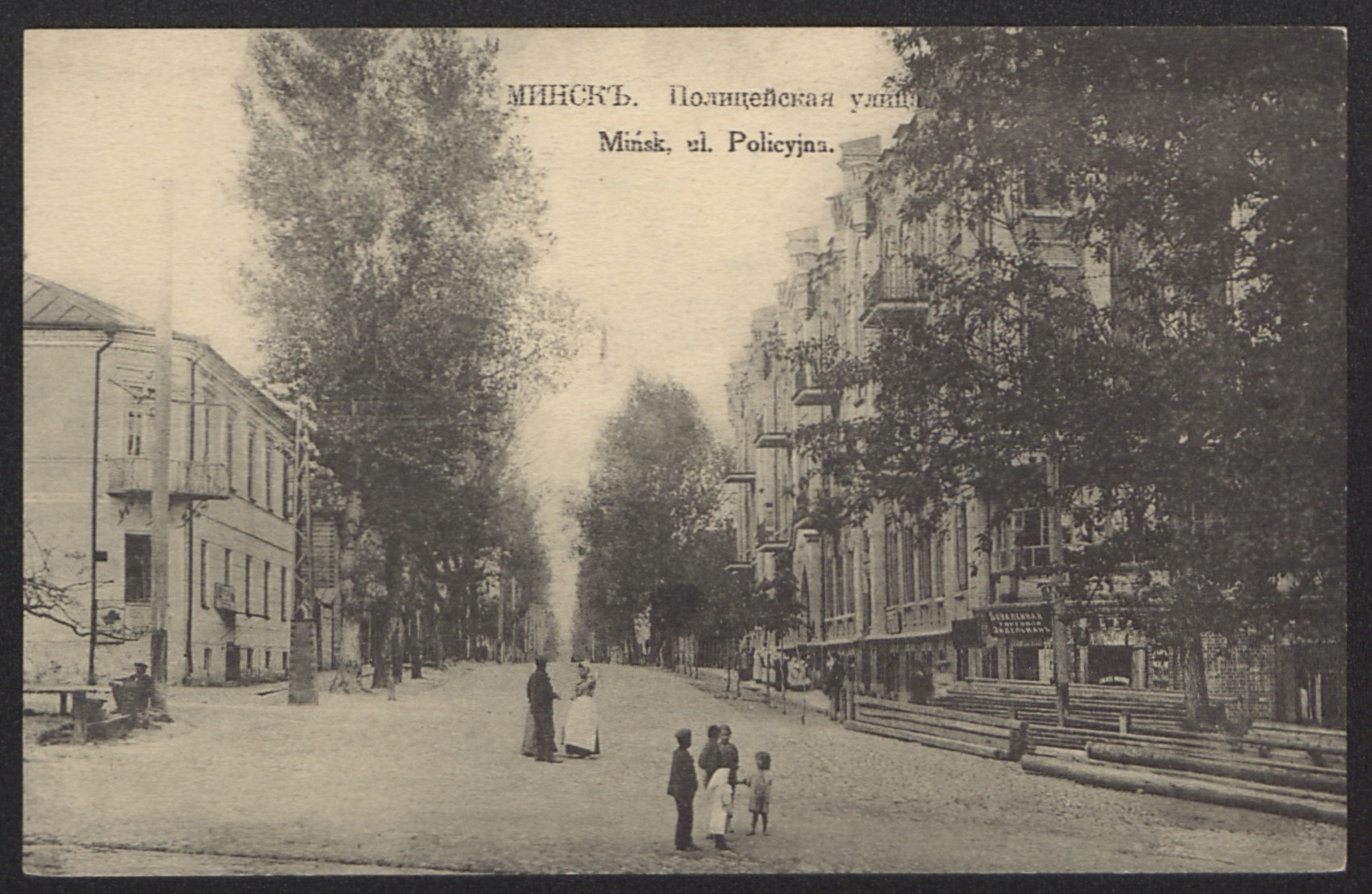 Nabiarežnaja Street in Miensk